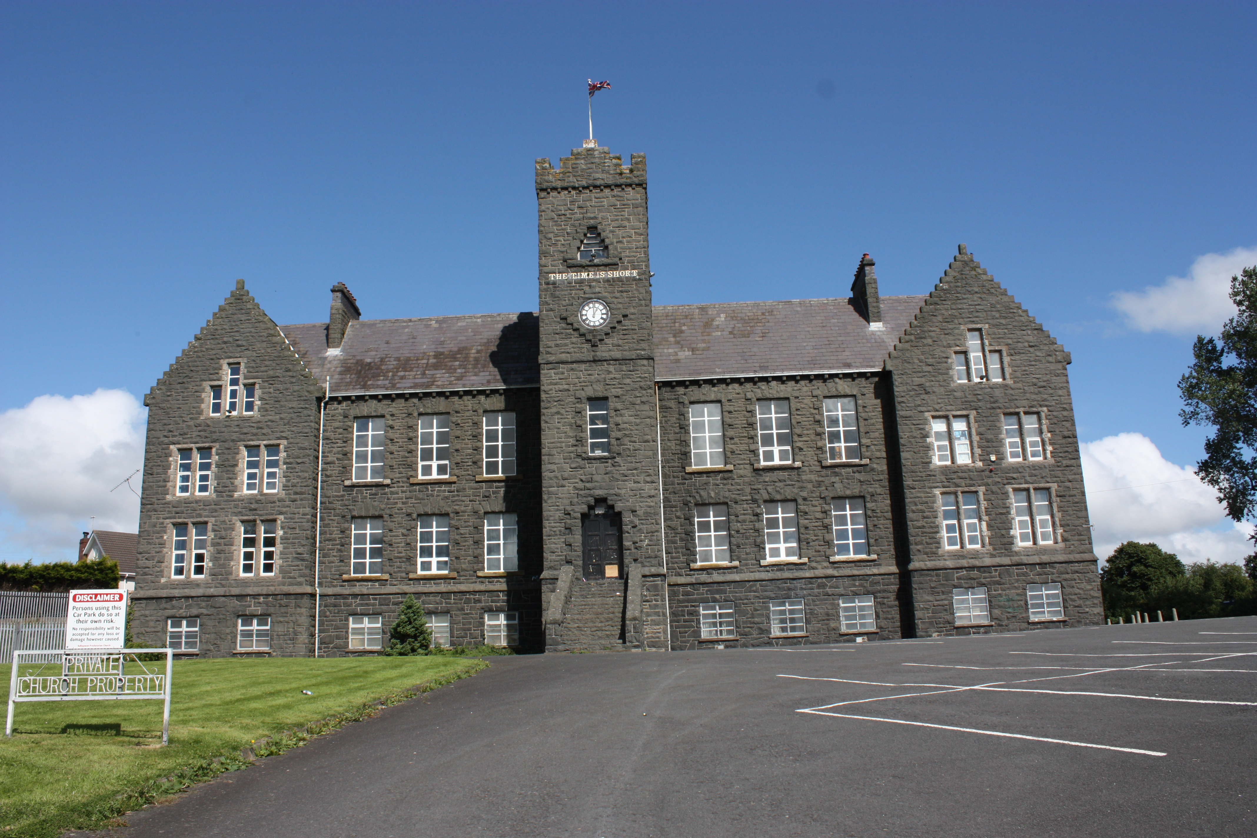 Former Olivet Home (now a Presbyterian church hall), Comber Road, Ballygowan, County Down, Northern Ireland, August 2010